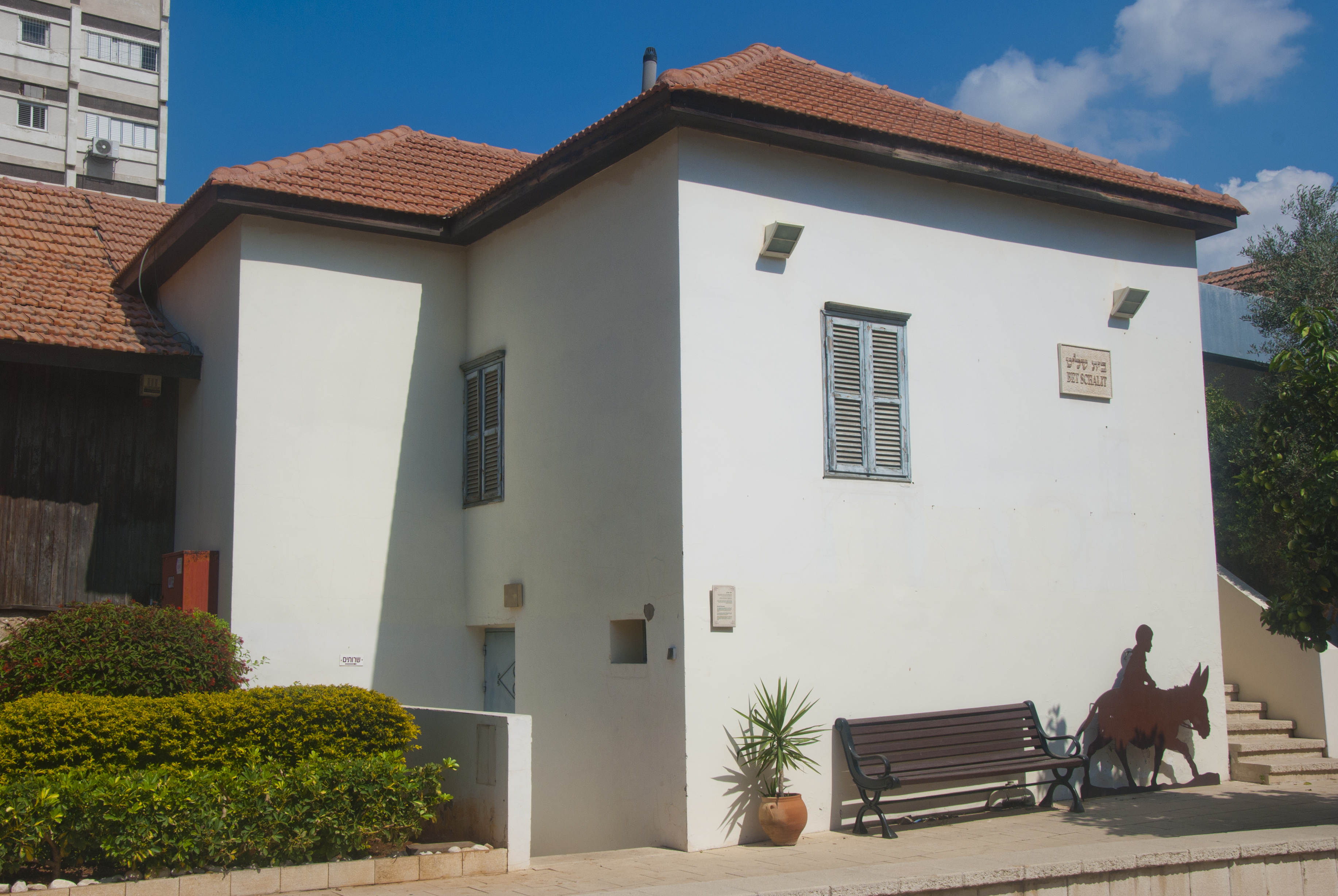 Schalit House, today part of the Rishon LeZion Museum in Rishon LeZion, Israel.